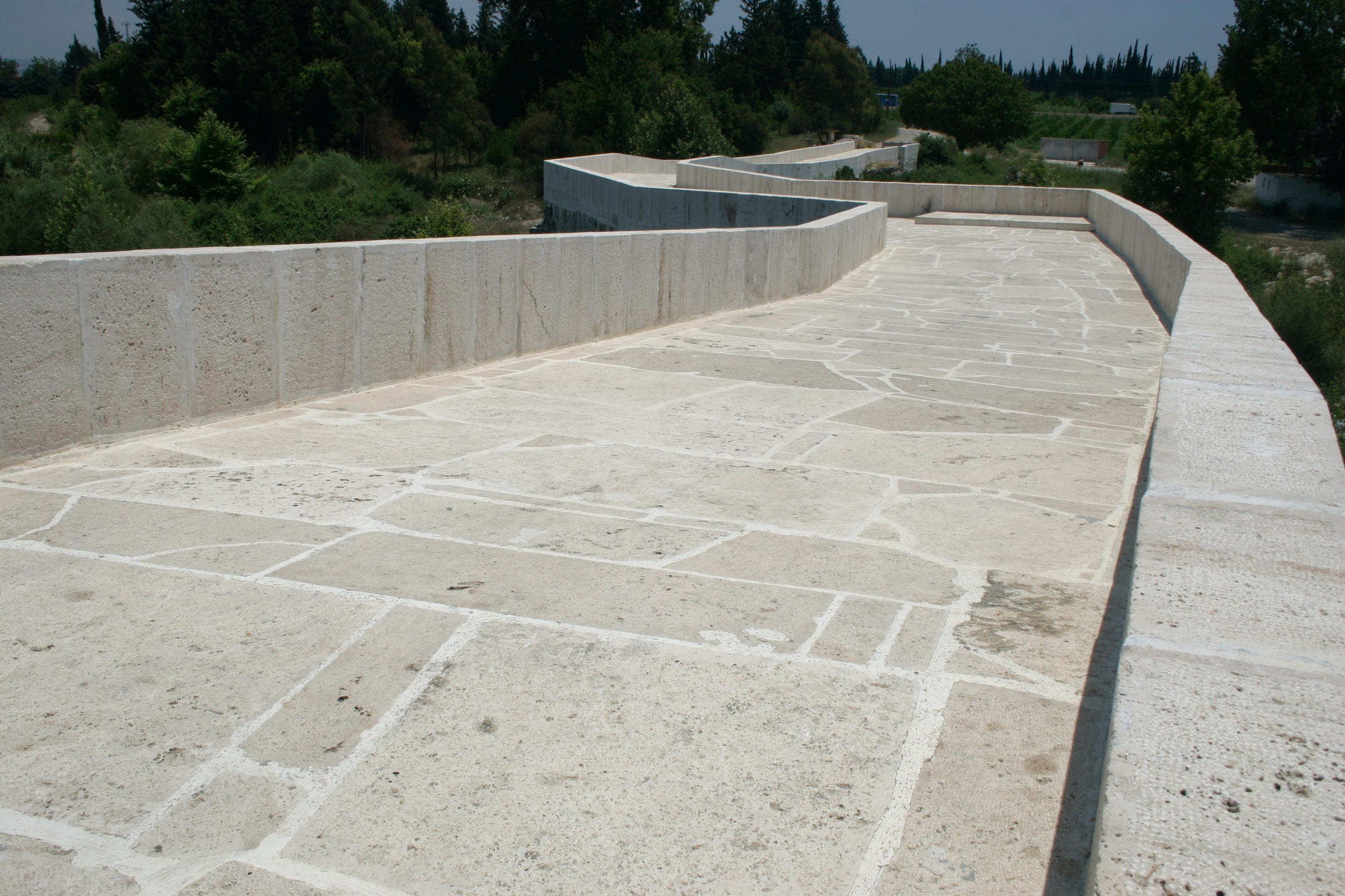 The Eurymedon Bridge (Köprüpazar Köprüsü) near Aspendos, Pamphylia, Turkey